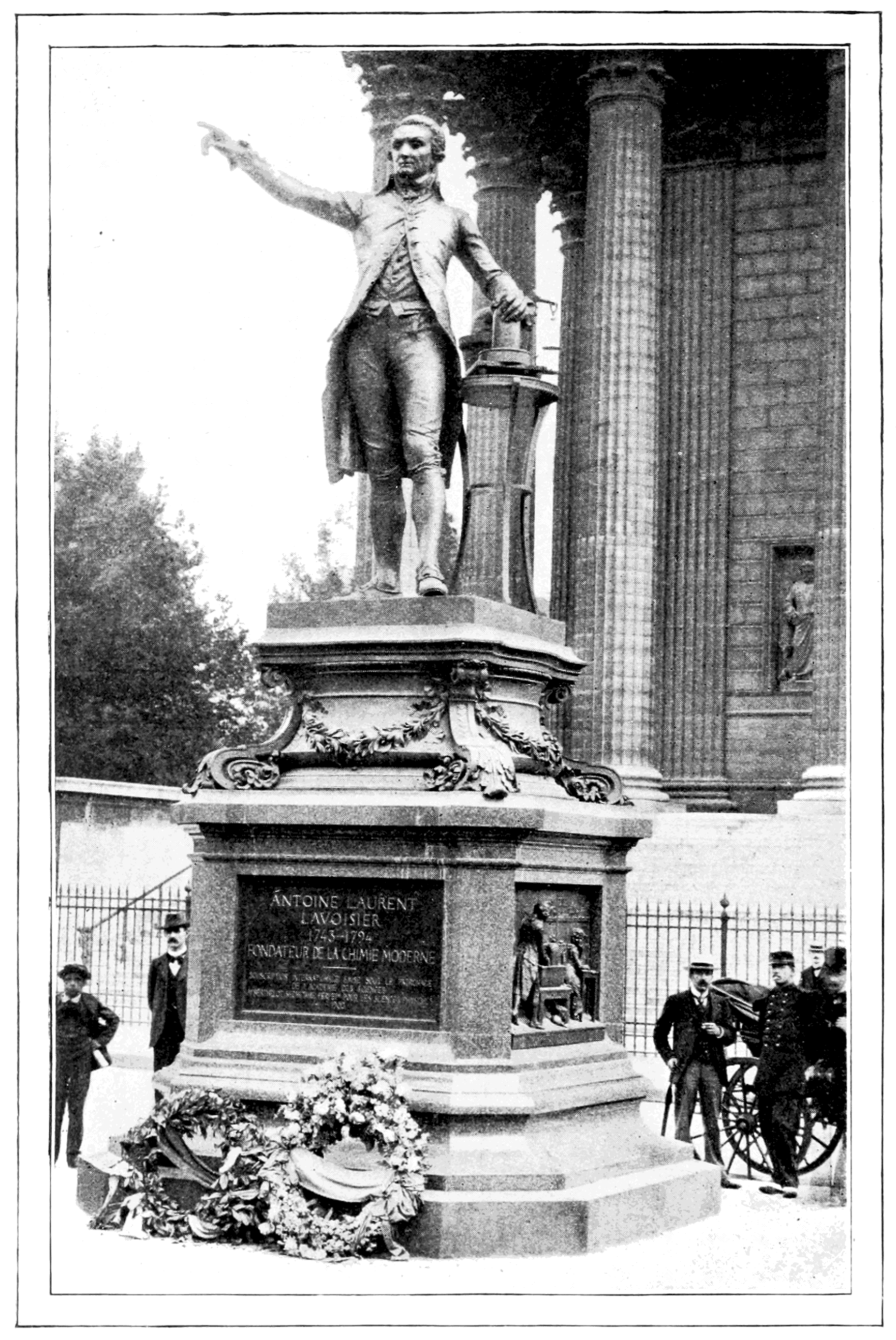 Lavoisier monument in Paris